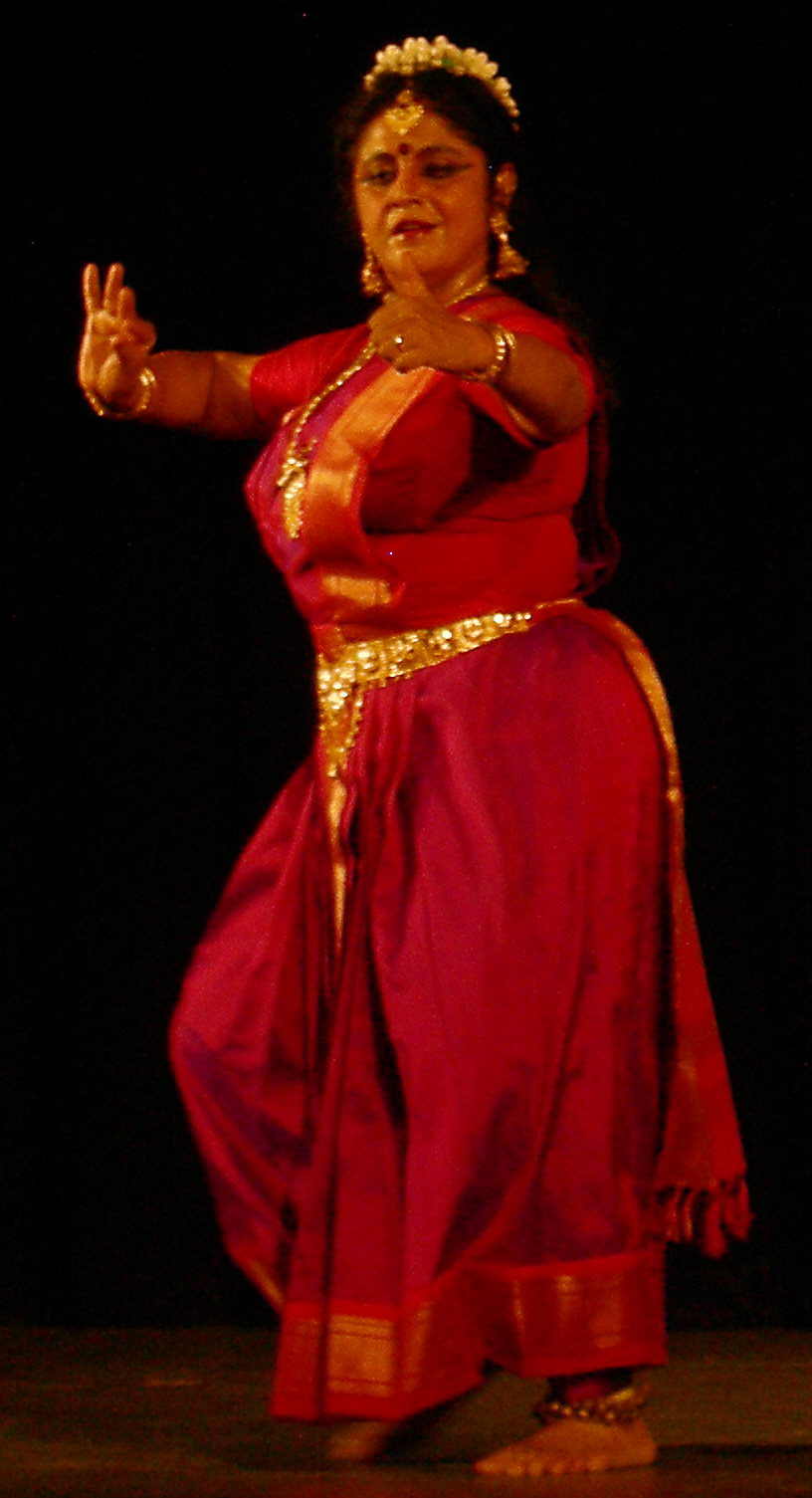 Bharata natyam dancer Chitra Visweswaran. Photo taken at Interlake High School, Bellevue, Washington, during a performance in the Ragamala series (Greater Seattle).